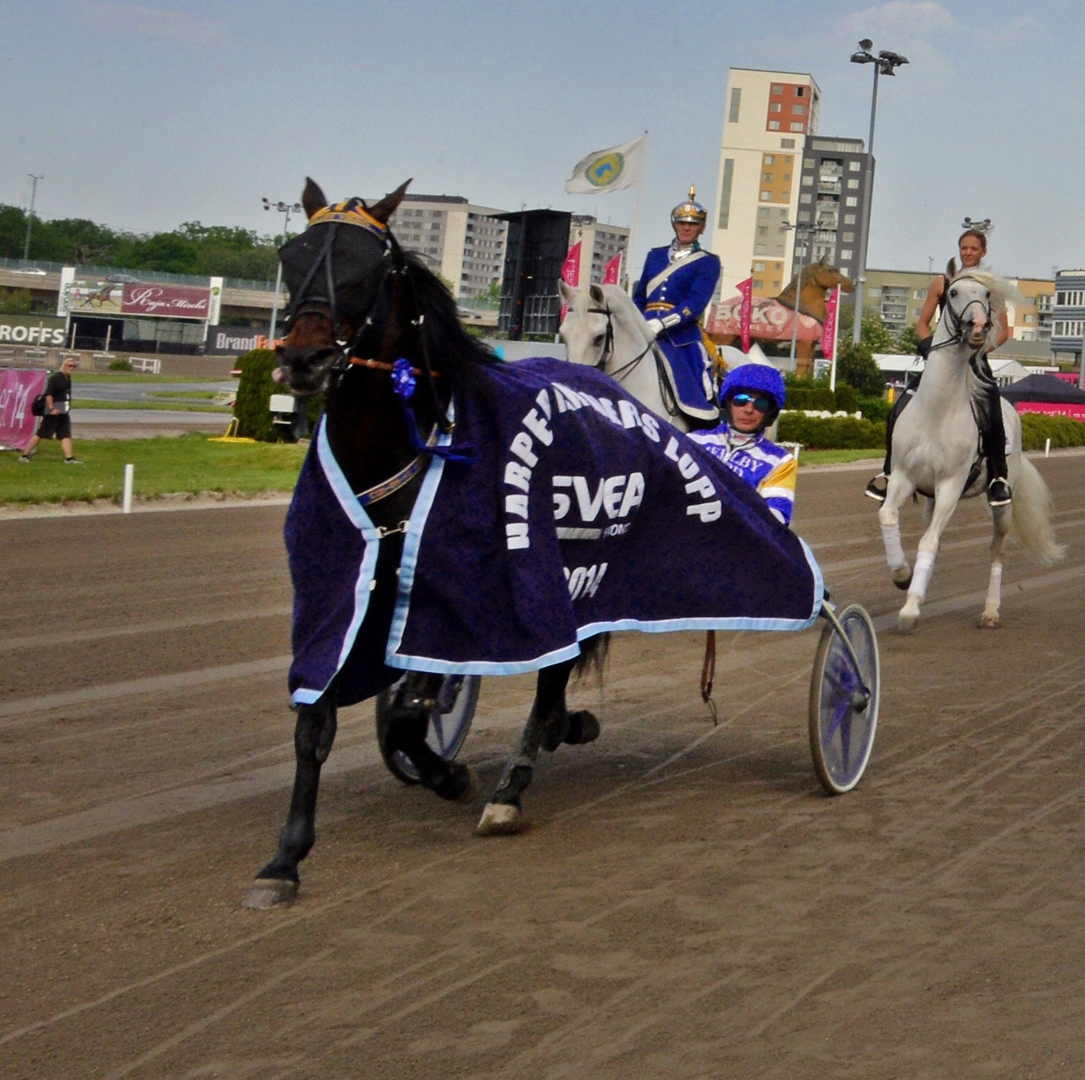 Mellby Viking (trained by Timo Nurmos) and Jorma Kontio after winning Harper Hanovers Lopp at Solvalla, Sweden 2014-05-24.